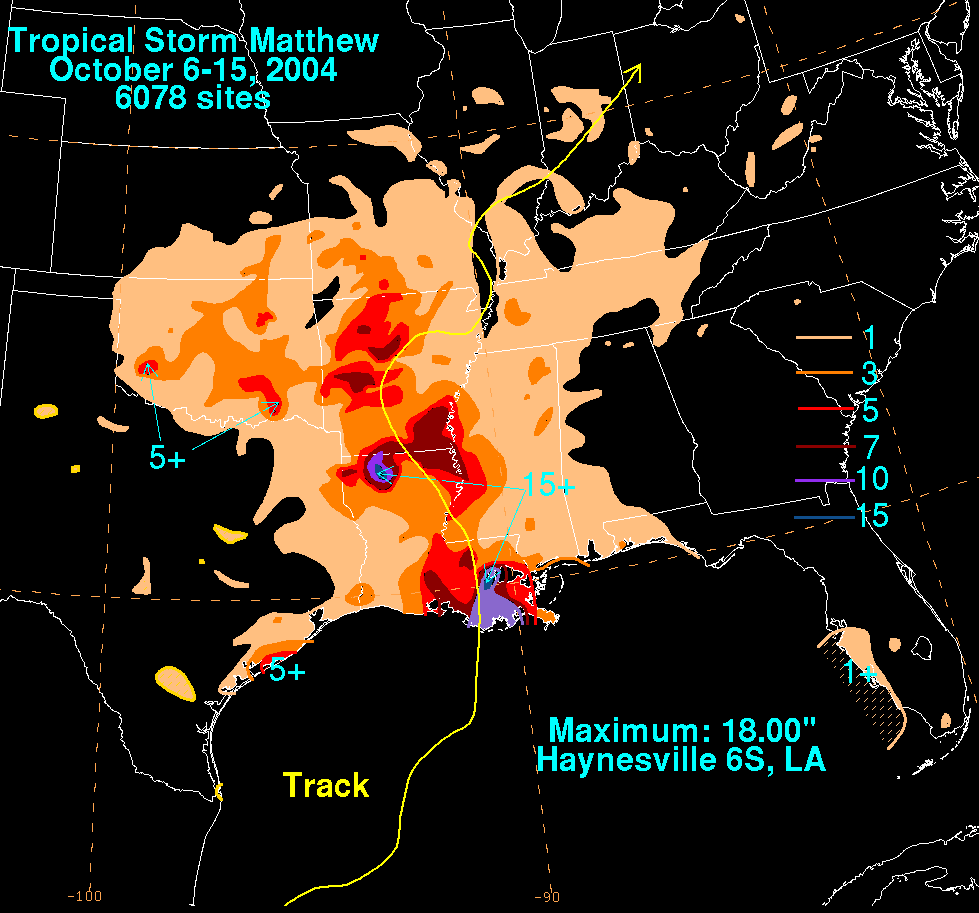 Storm total rainfall map of Tropical Storm Matthew during October 2004.